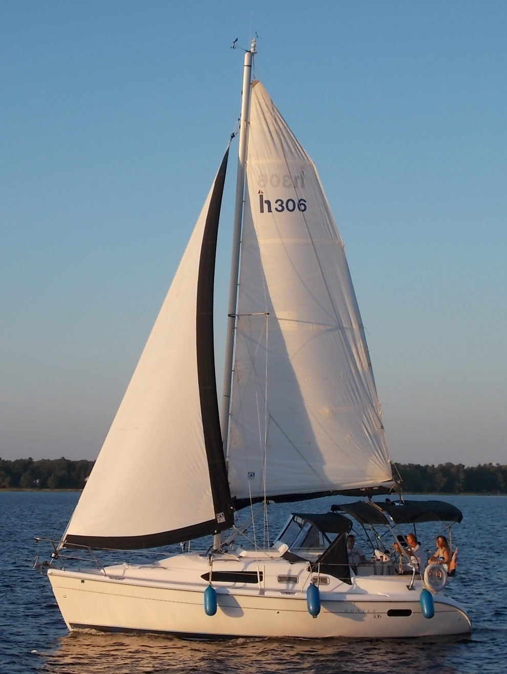 Hunter 306 sailboat on Lac Deschênes, part of the Ottawa River, Ottawa, Ontario, Canada